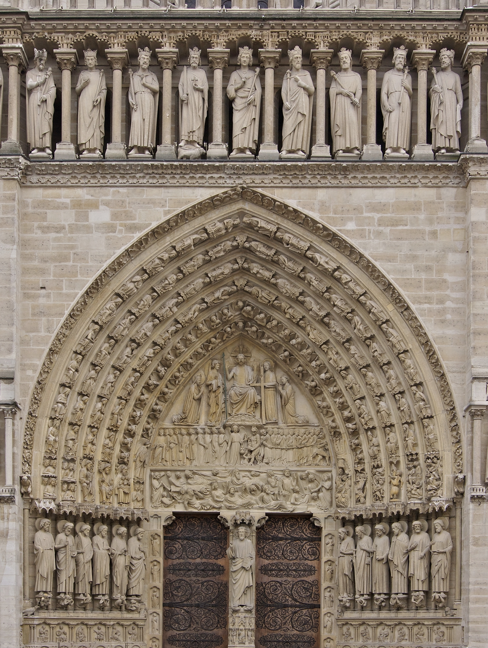 "The last judgment", and a part of the "gallery of Kings", central & main gate of the Cathedral Notre Dame de Paris, 13th century, restoration 19th century.